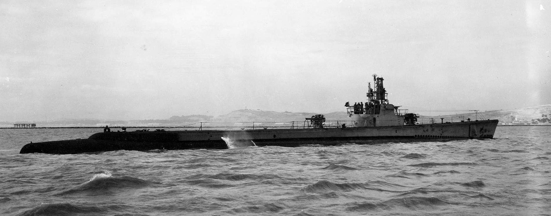 USS Hake (SS-256) underway, starboard broadside view off Mare Island, California, 29 May, 1945